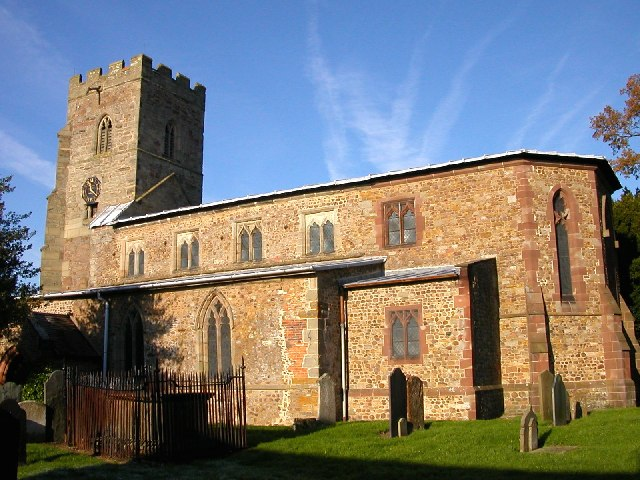 All Saints' parish church, Swinford, Leicestershire, England, seen from the south